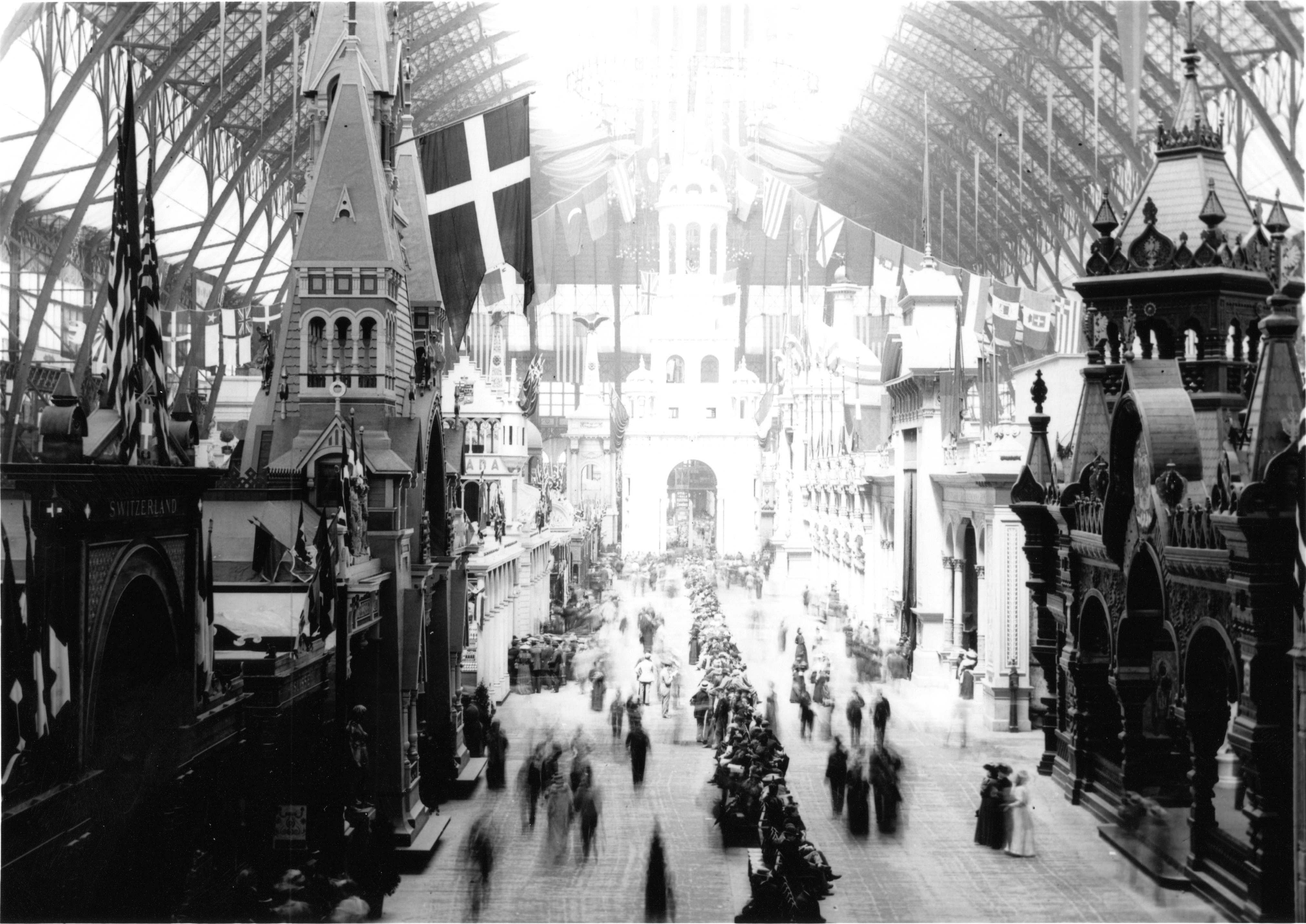 World's Columbian Exposition in Chicago - Swiss section (left) and Russian section (right), Manufactures and Liberal Arts Building. The photo was on a glass slide, that my father had developed into an image. I digitized it. The photographer was my great grandfather who had a photography shop on 2029 Wabash Avenue, in Chicago.